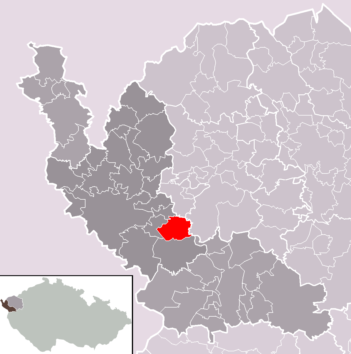 Location of Milíkov municipality within Cheb District and administrative area of Cheb as a Municipality with Extended Competence.